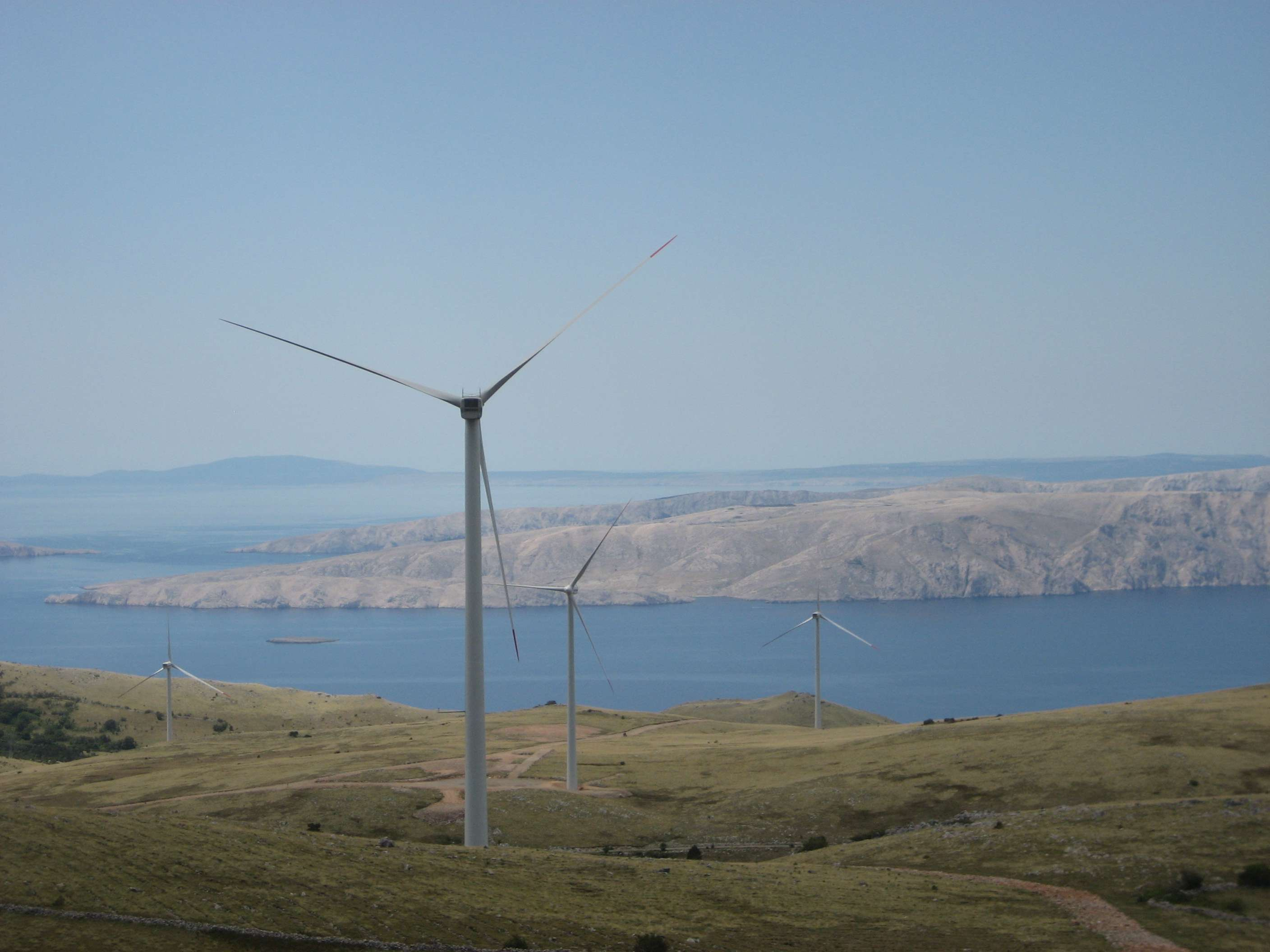 Vrataruša wind farm near Senj, Croatia